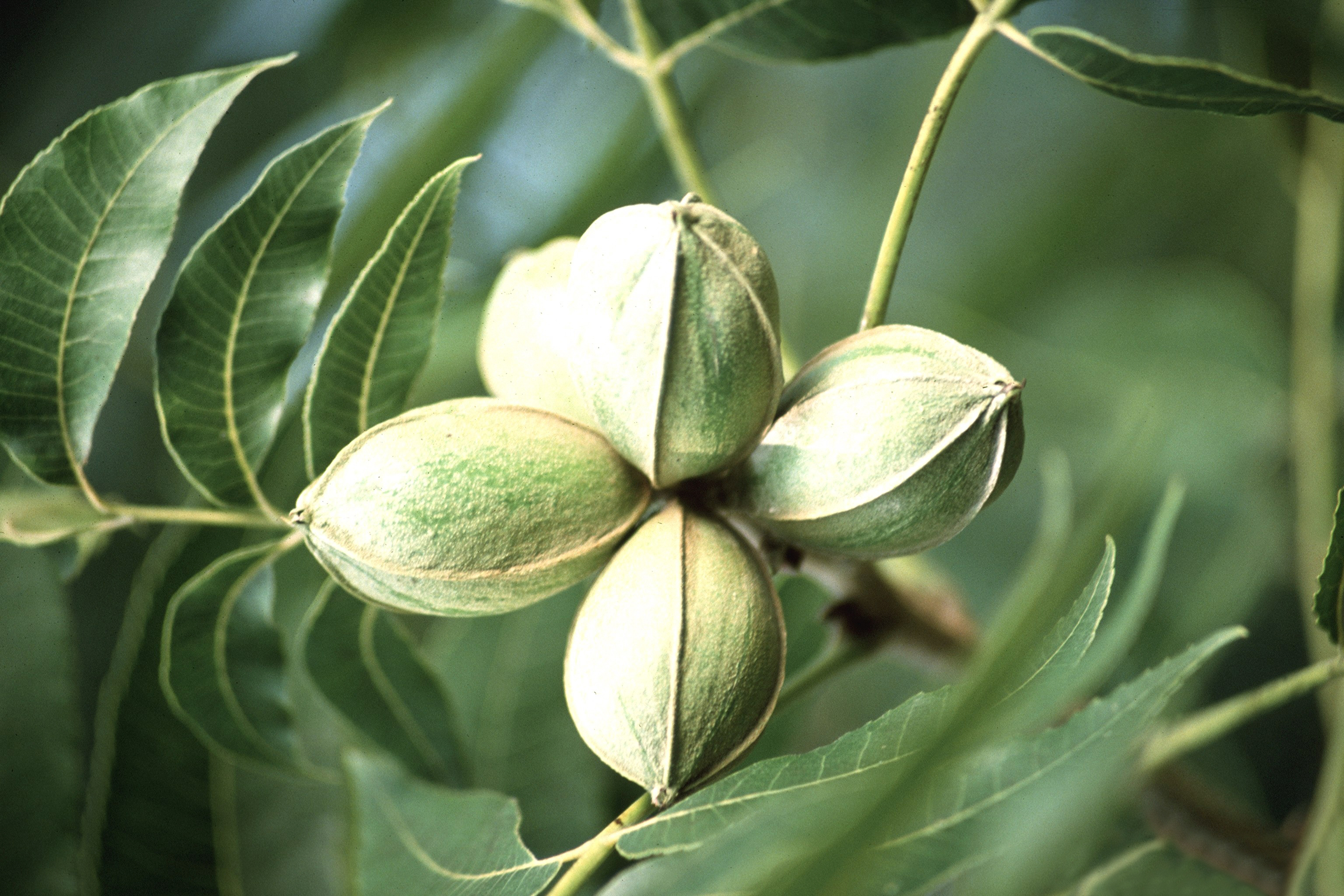 Carya illinoinensis nuts